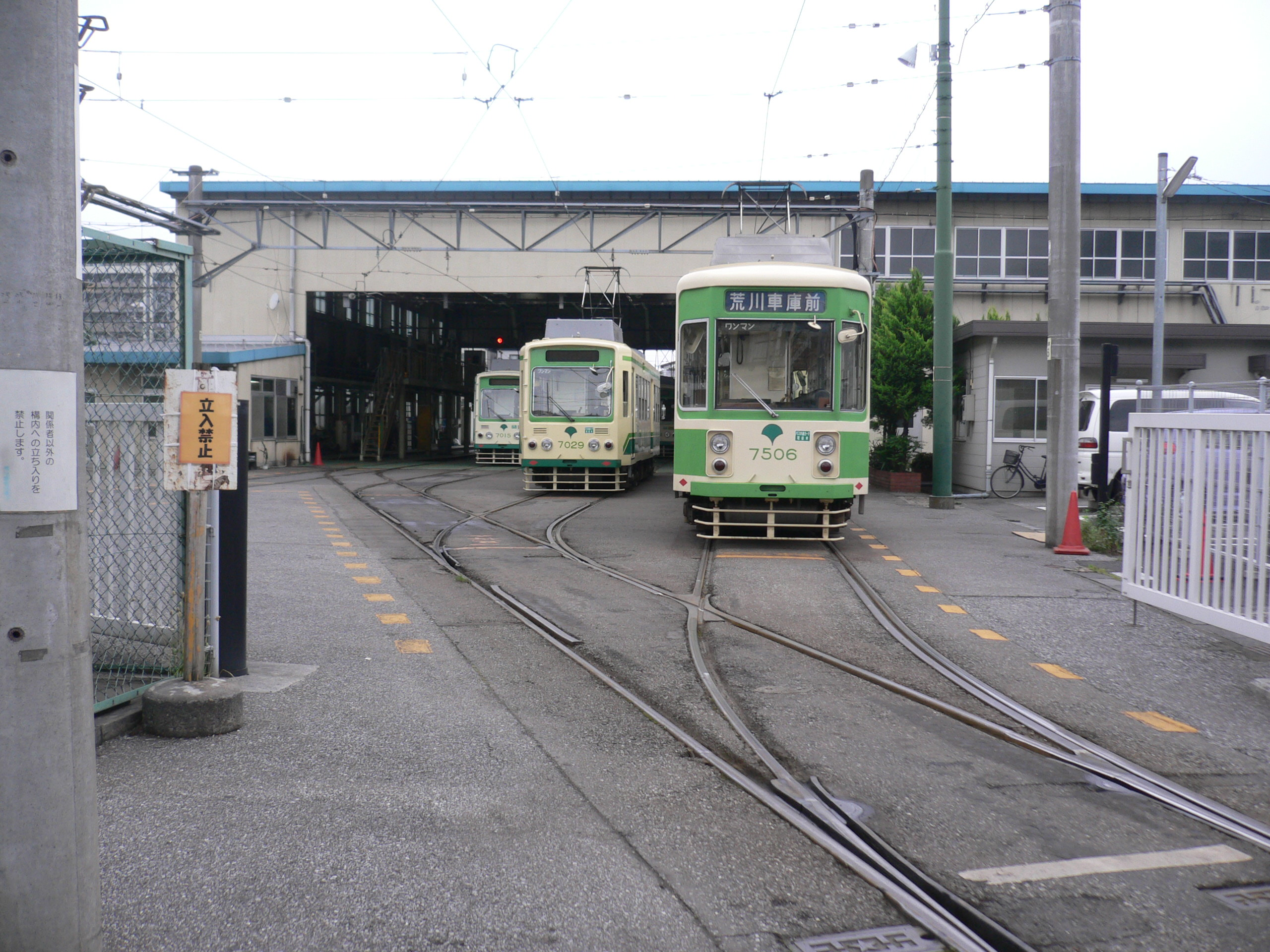 Toden Arakawa Line train depot, Arakawa, Tokyo M.